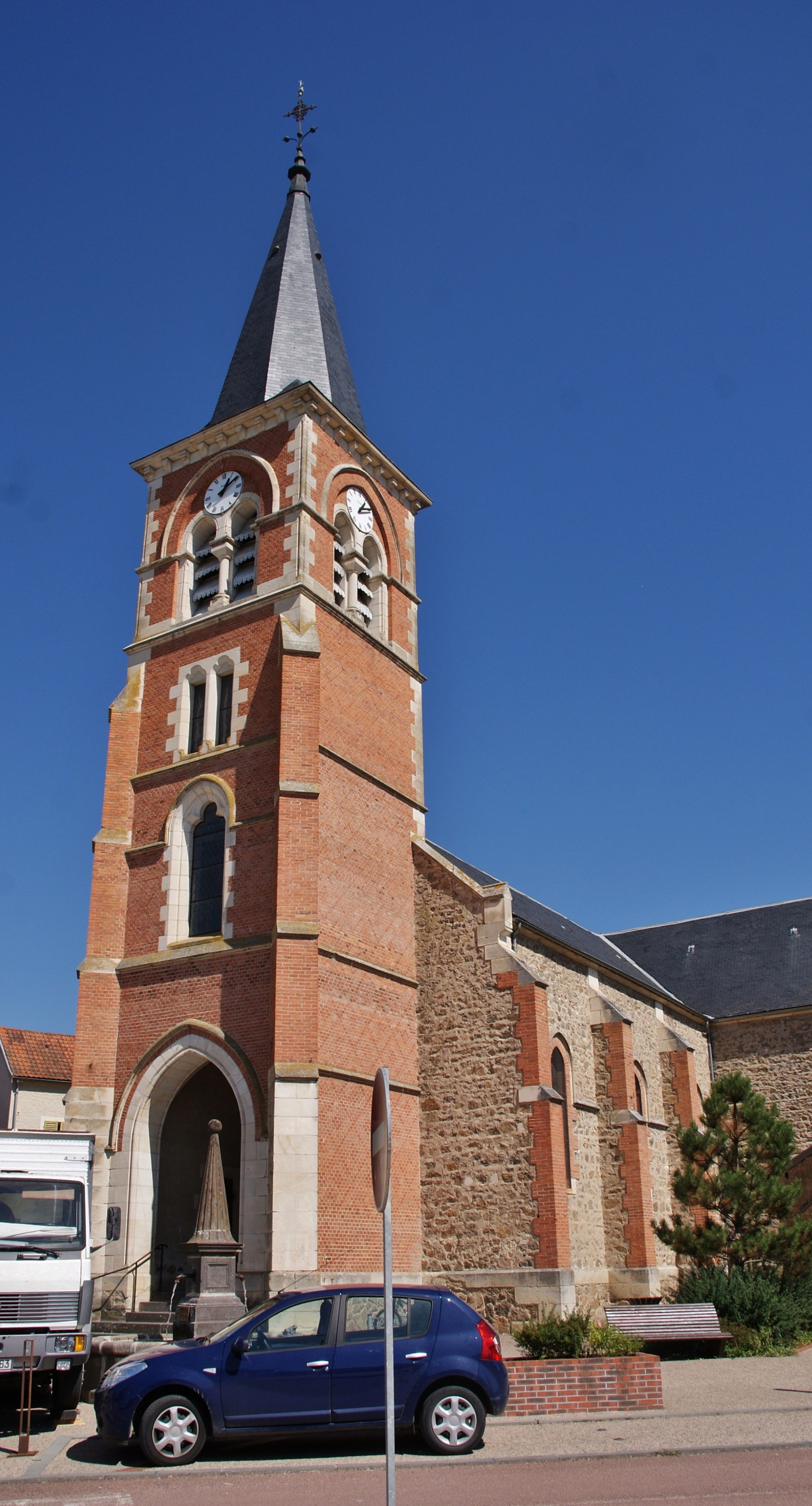 église St Cyr et Ste Juliette